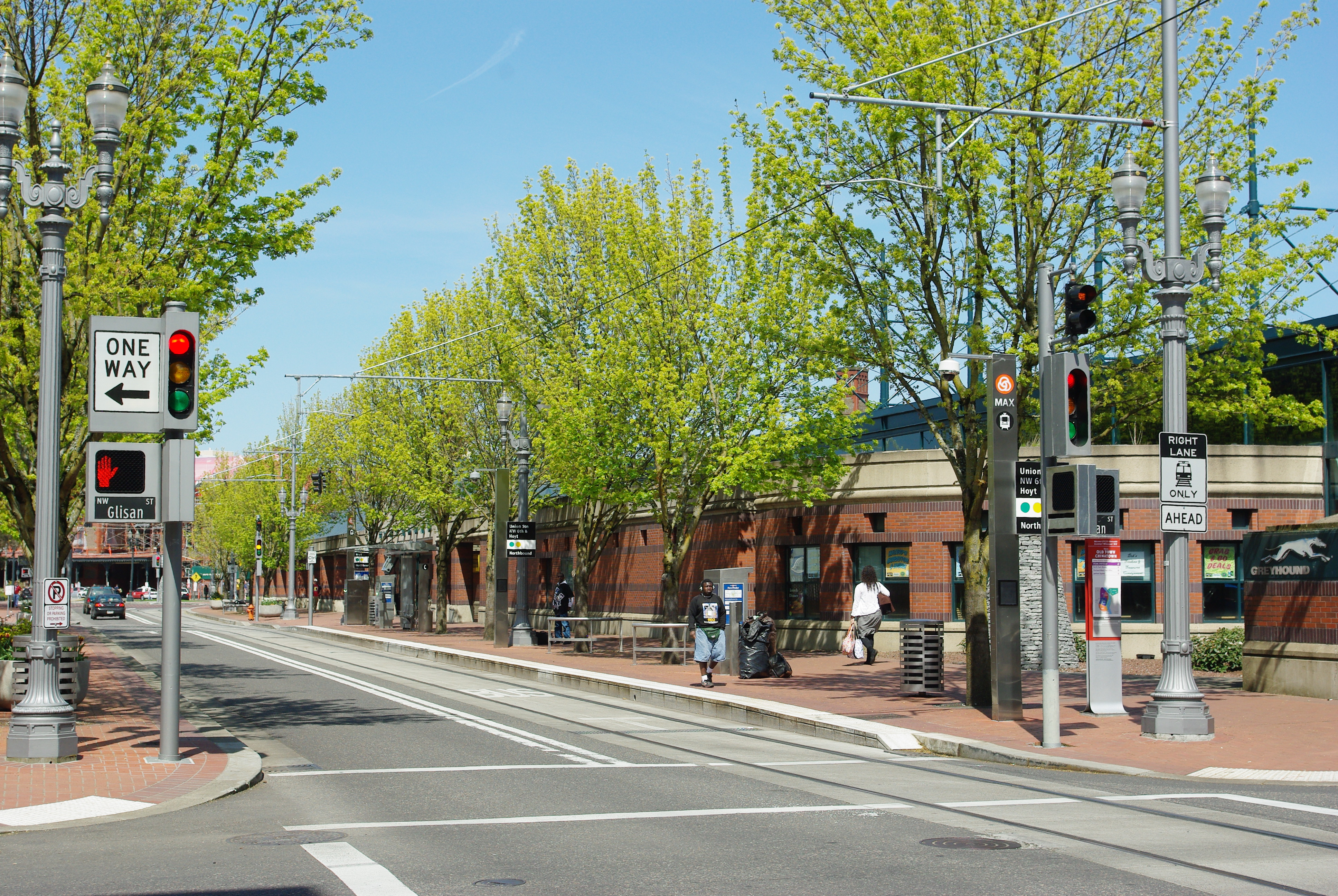 Northbound MAX stop at Union Station.